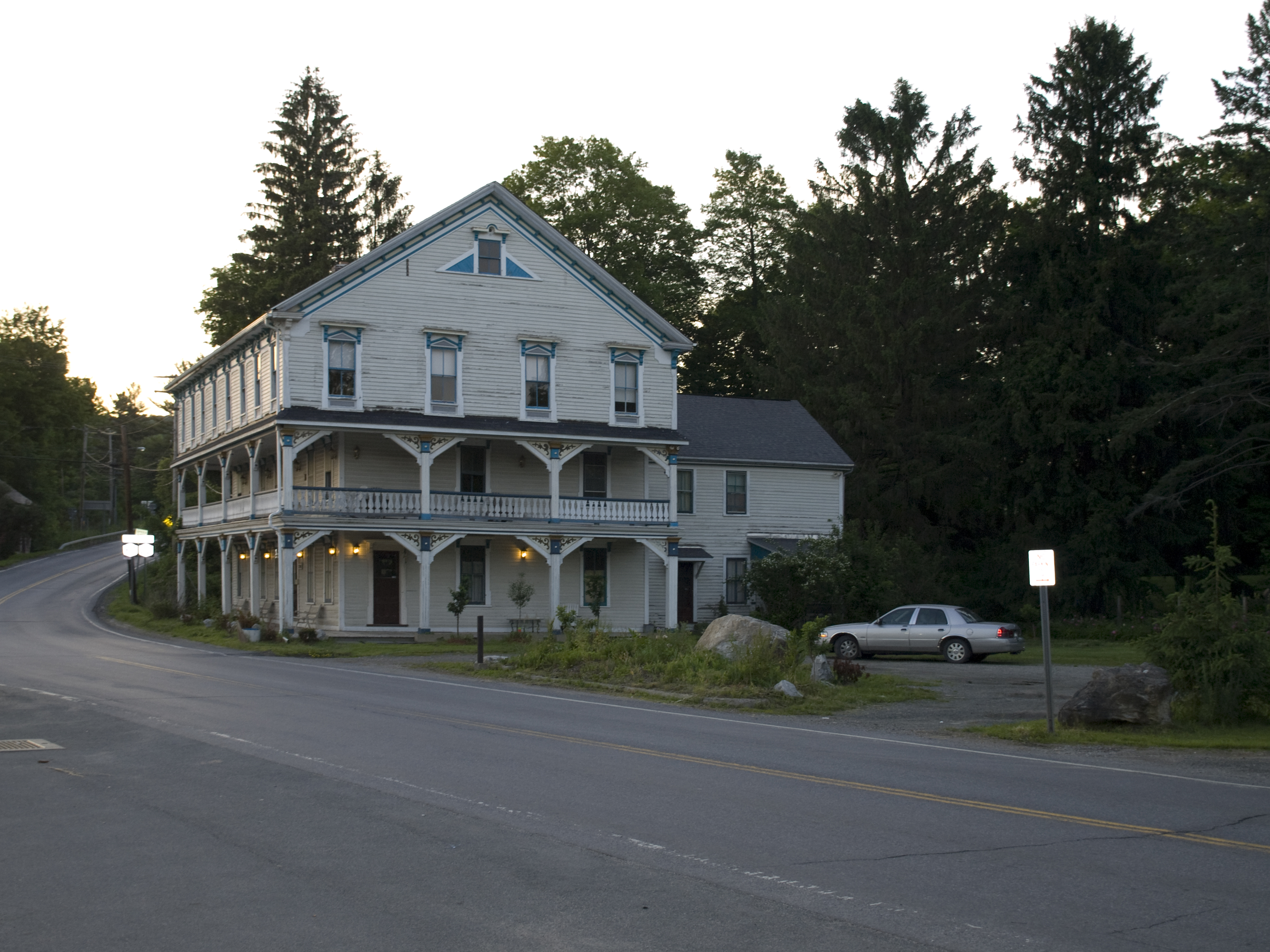 Delany Hotel, #22198 North Hoosick, NY, at the T-crossing of the 22 and the 67 highways